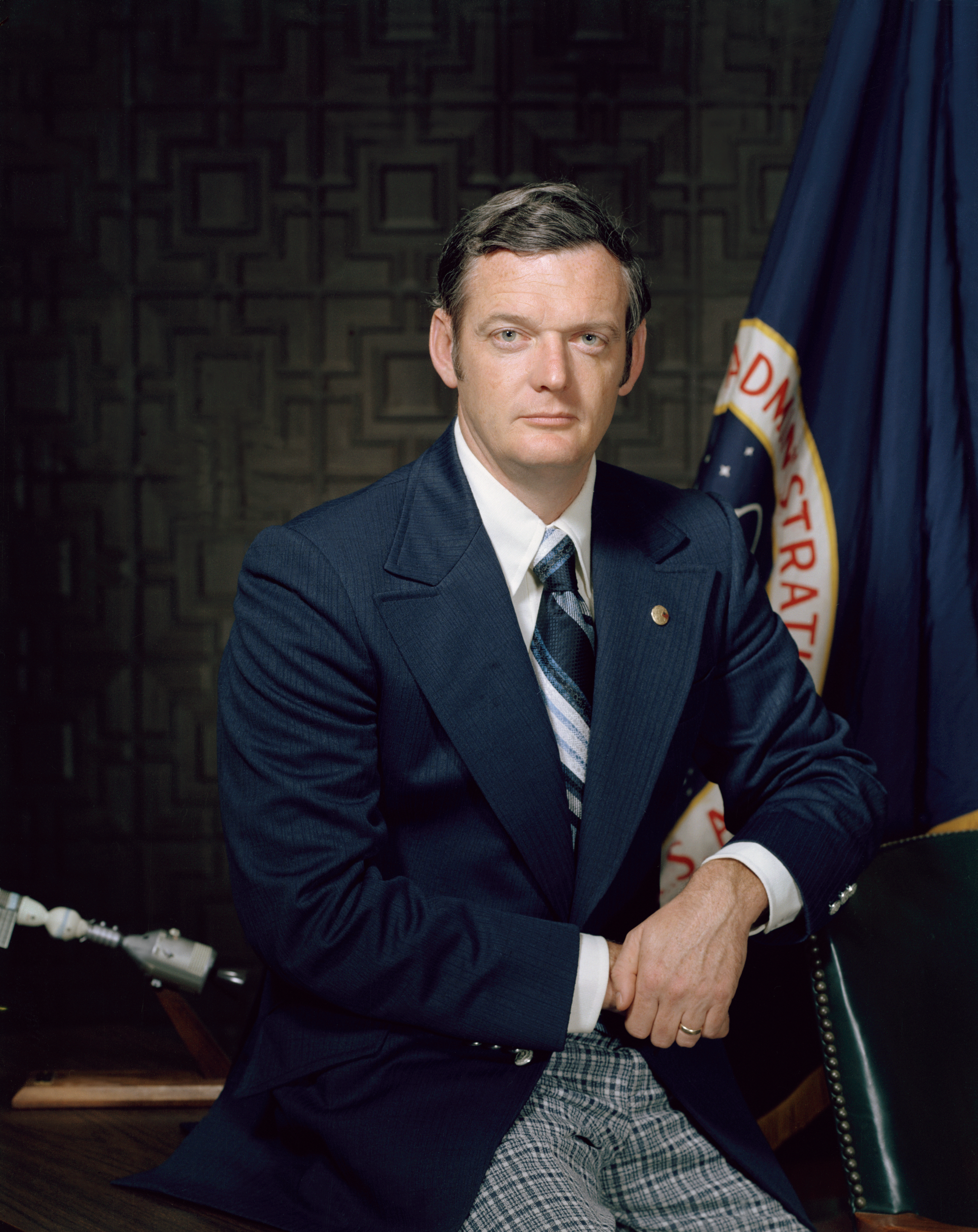 The official portrait of Dr. Glynn S. Lunney, U.S. Technical Director, Apollo–Soyuz Test Project, Johnson Space Center.